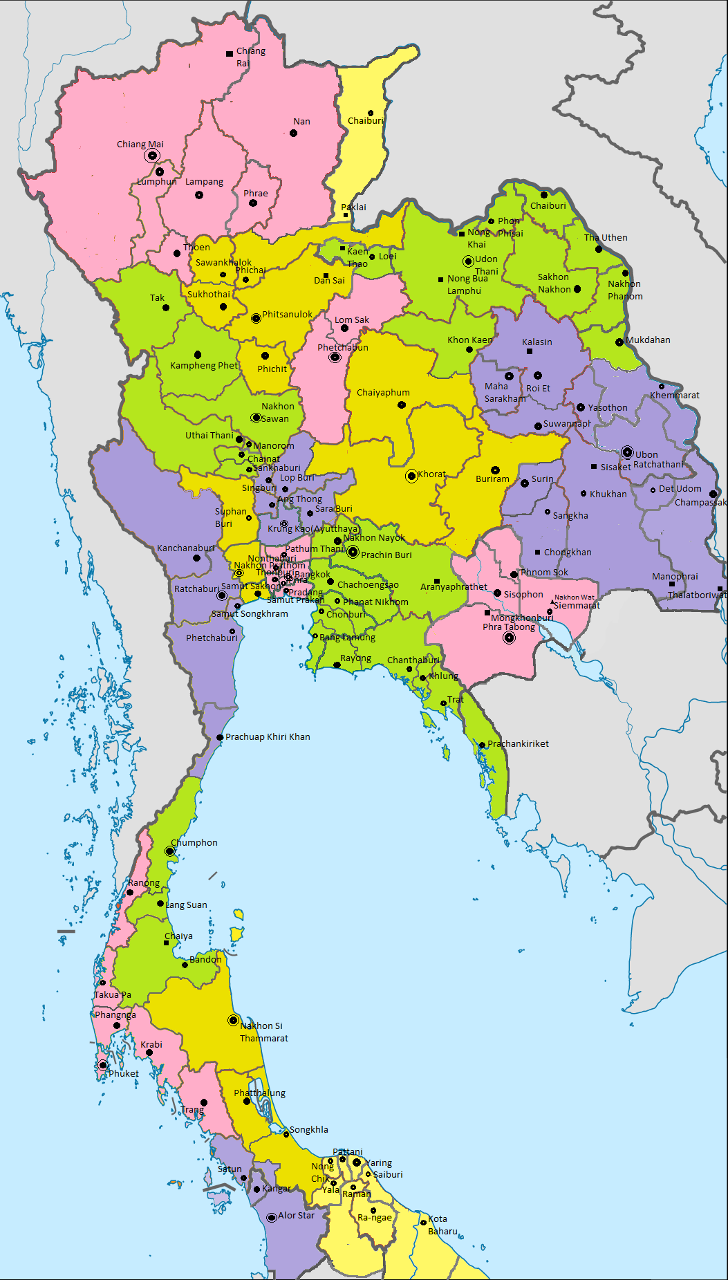 Map of monthon and provinces